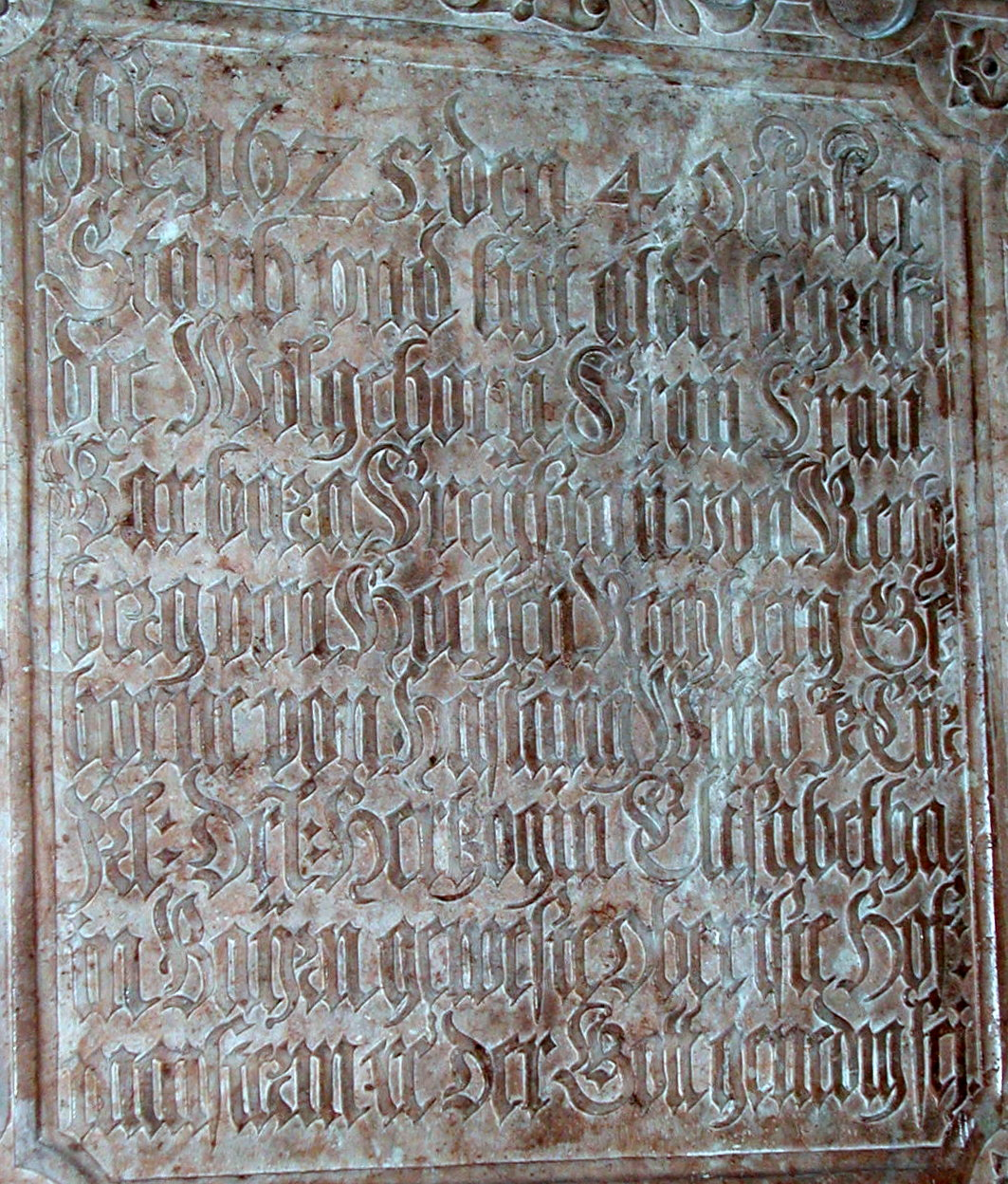 Munich, St.Peter,Barbara von Rechberg,von Haslang by birth, 17th century